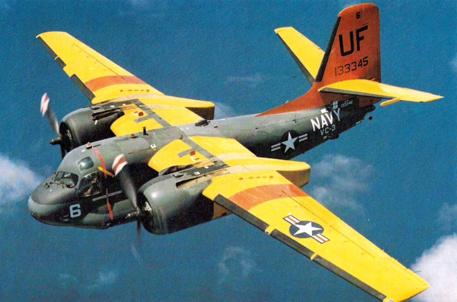 A U.S. Navy Grumman US-2C Tracker (BuNo 133345) from composite squadron VC-3 Chukar Pups. VC-3 operated the US-2C as target tugs in the 1960s and 1970s.